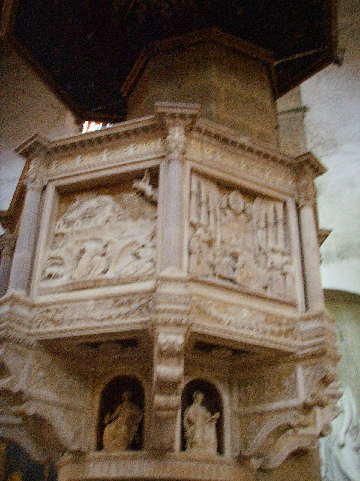 Santa Croce church, pulpit by Benedetto da Maiano, inside, in Florence, Italy